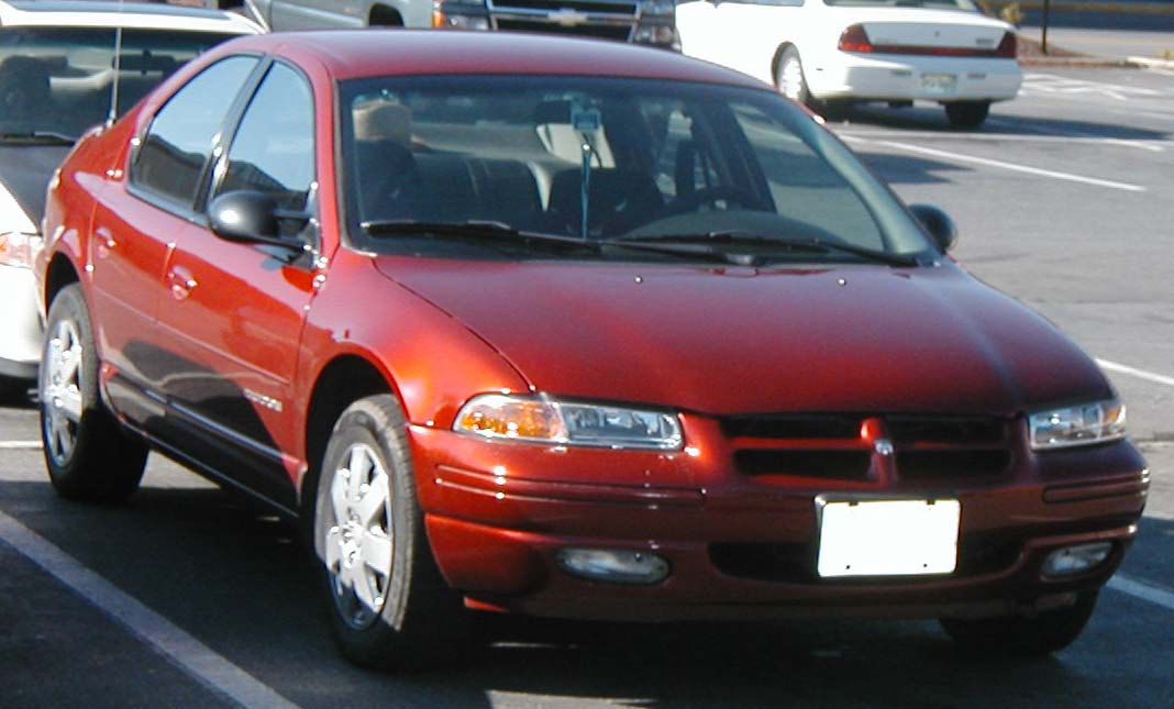 1995-2000 Dodge Stratus photographed in USA.